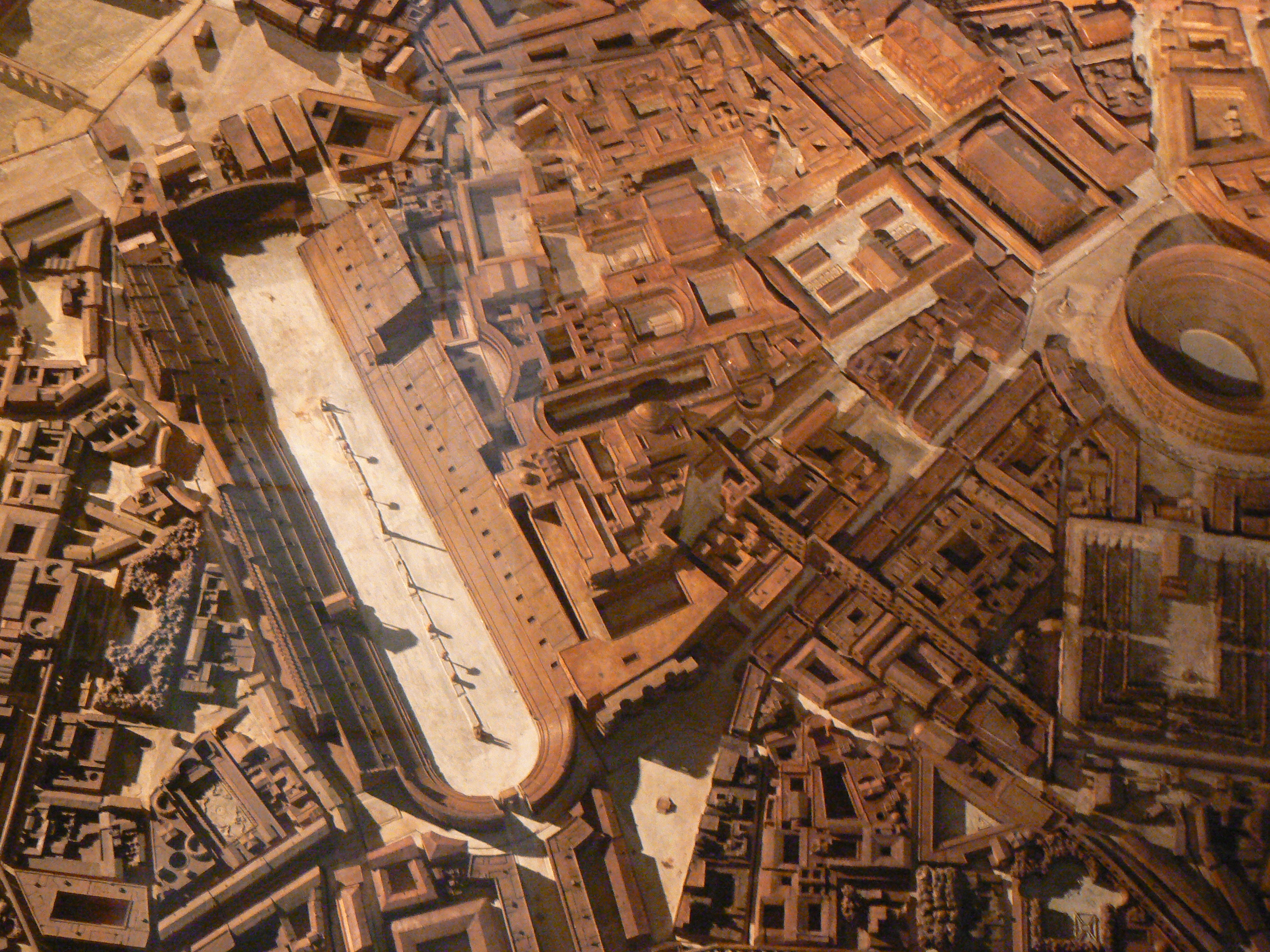 Model of Rome, Paul BIGOT, in the MRSH of the university of Caen : areas of the Circus Maximus and of the Colosseum